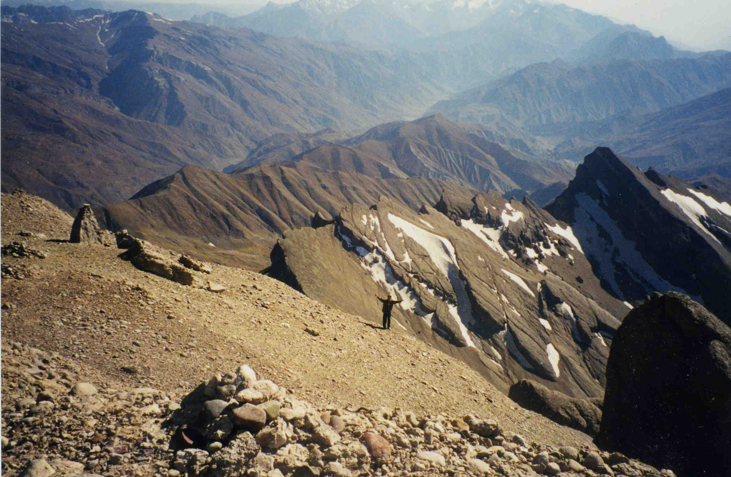 Mountains in Tajikistan